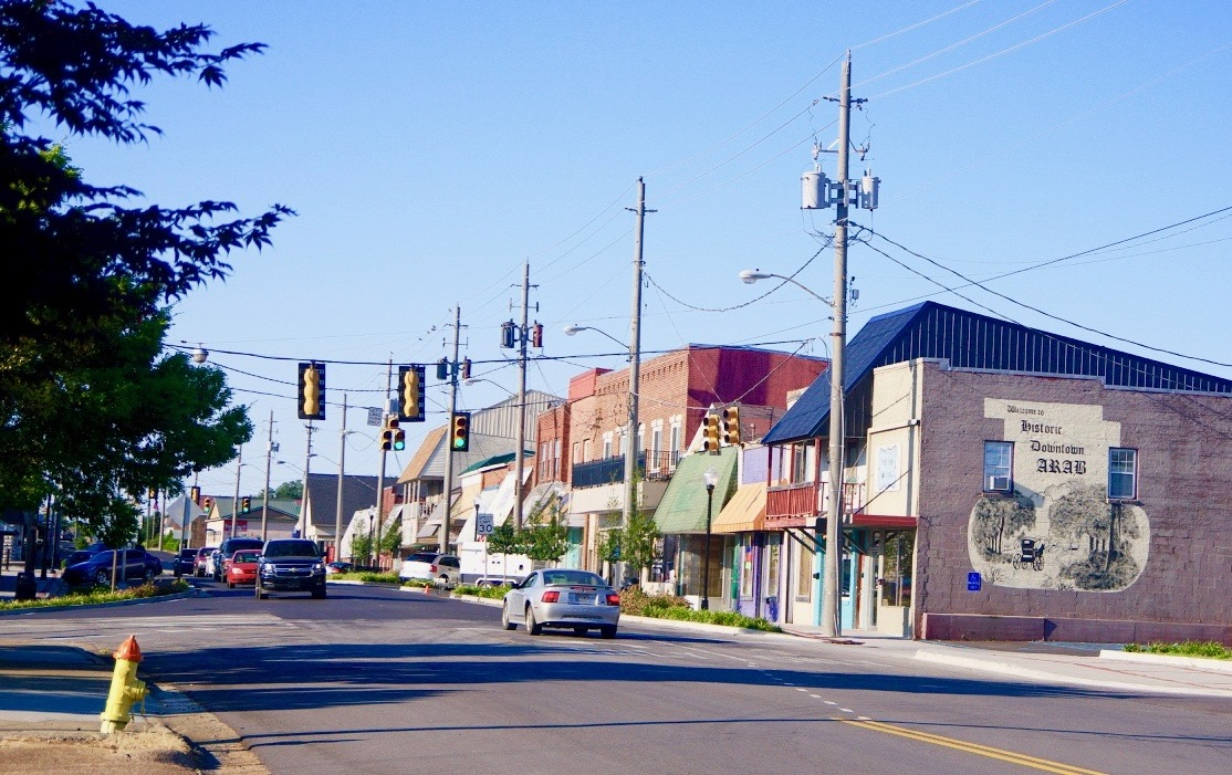 View along Main Street (State Route 69) in Arab, Alabama, United States.